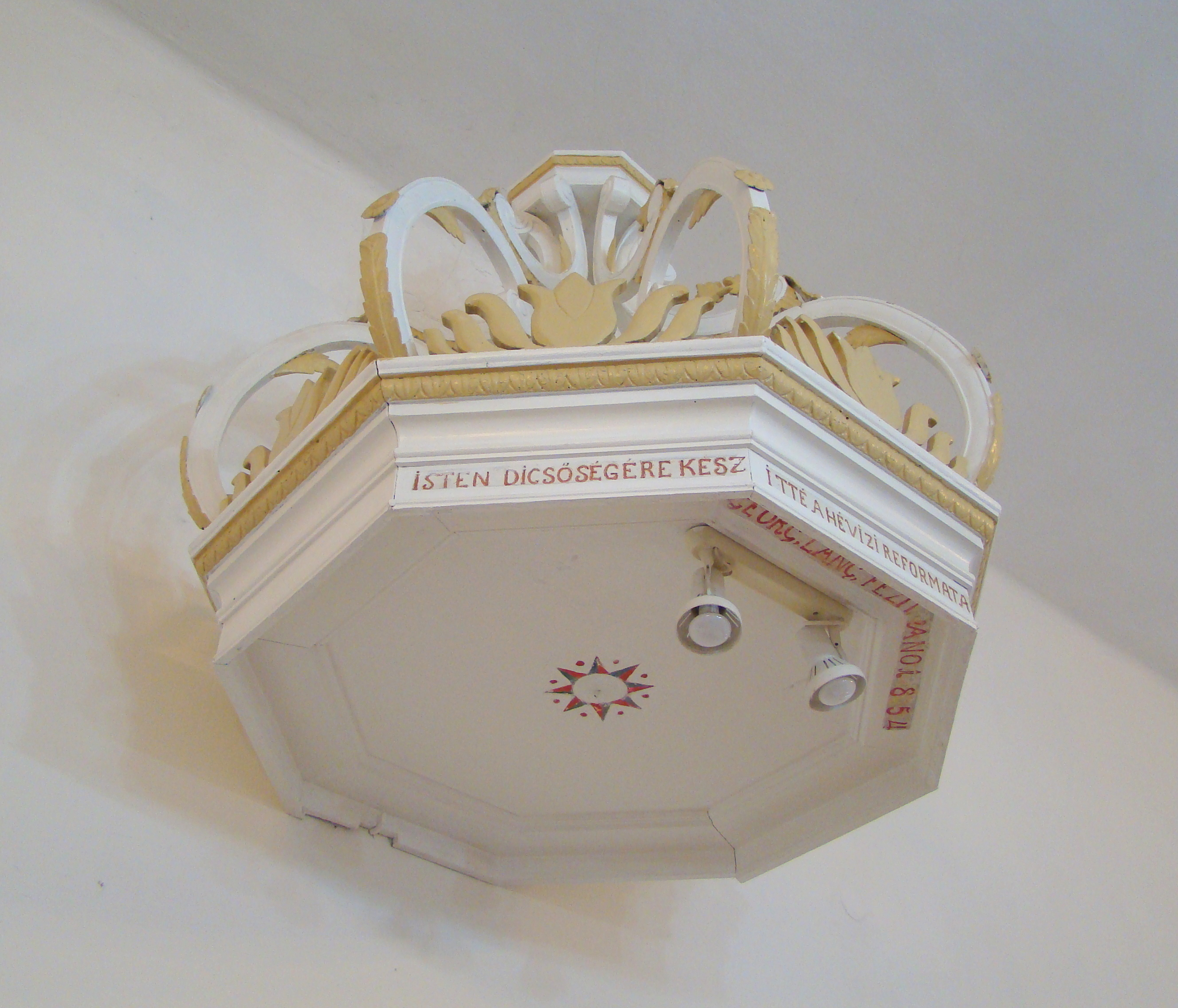 Reformed church in Hoghiz, Brașov county, Romania